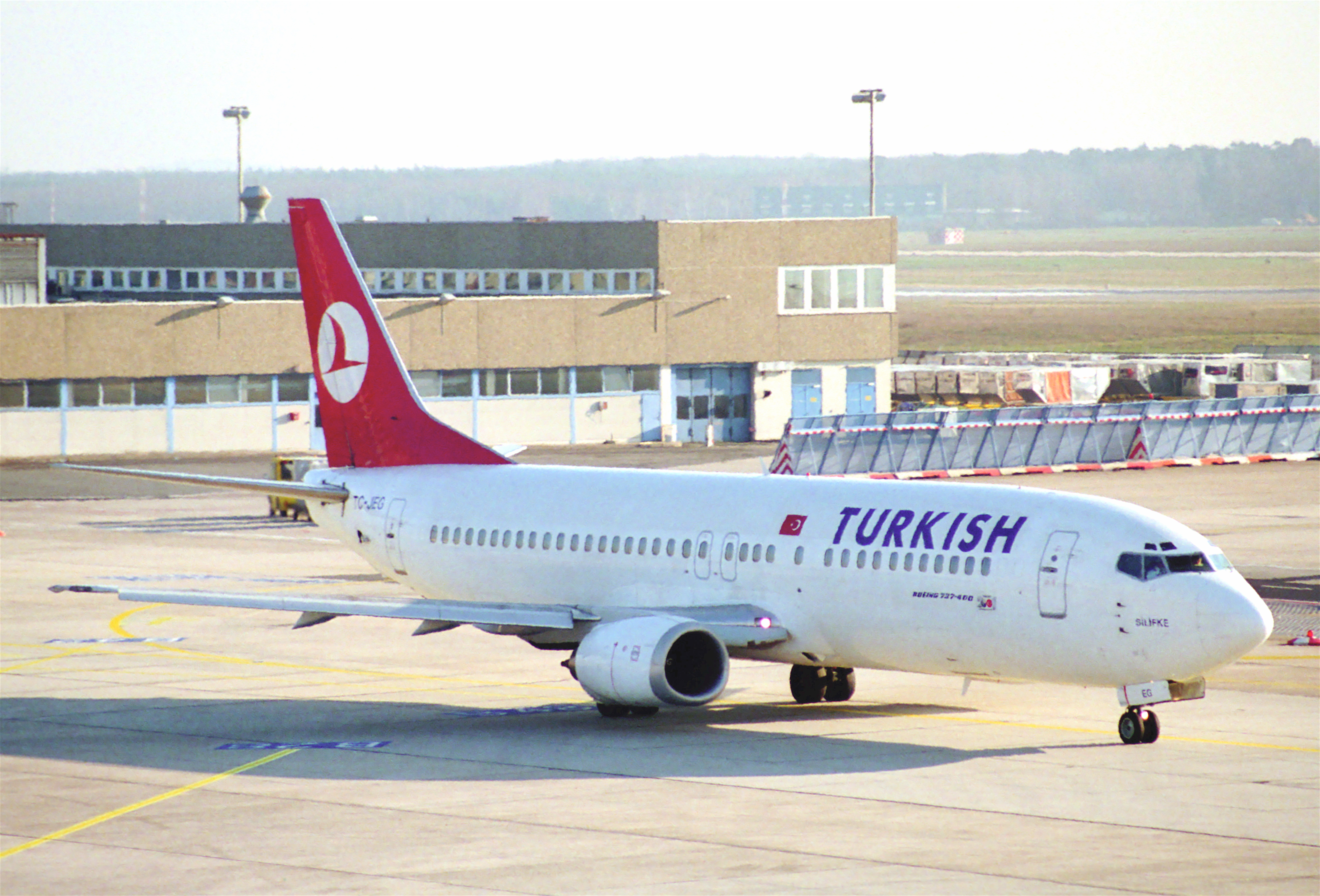 This Boeing 737-4Q8 took its first flight on December 10, 1993...(c/n 25374/ 2562) 07/01/1994 THY Turkish Airlines TC-JEG 14/01/2000 Air Anatolia TC-ANL 07/02/2003 MNG Airlines TC-MNL 16/04/2006 Corendon Air TC-TJC 01/11/2008 Sun Air Sudan TC-TJC 01/05/2009 Corendon Air TC-TJC 29/04/2011 Enter Air SP-ENE